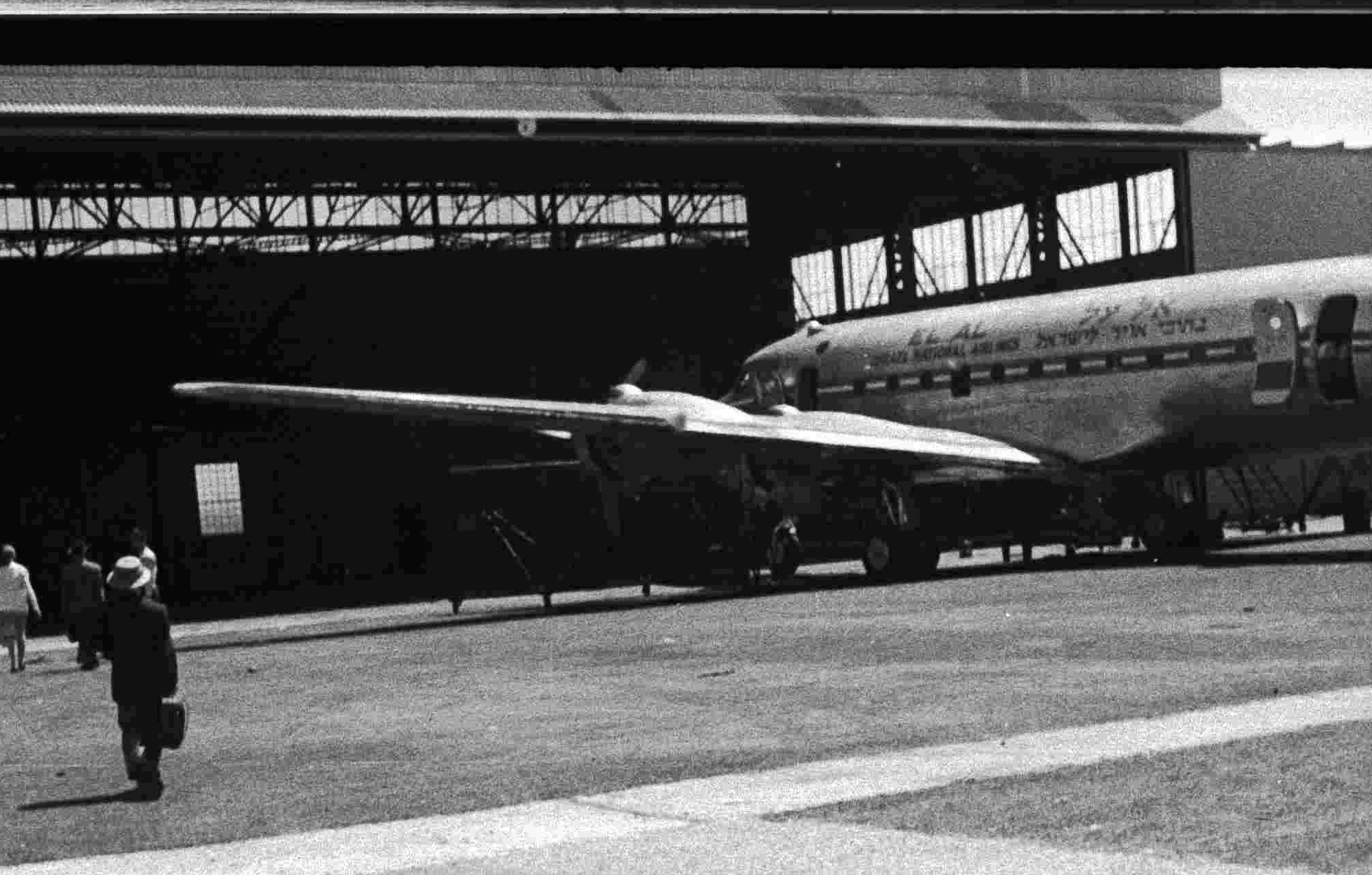 El Al C-54 Skymaster in Lod Airport hangar, (~1952). Either 4X-ACC or 4X-ACD.